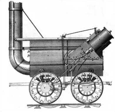 drawing of Stephenson locomotive "Lancashire Witch"